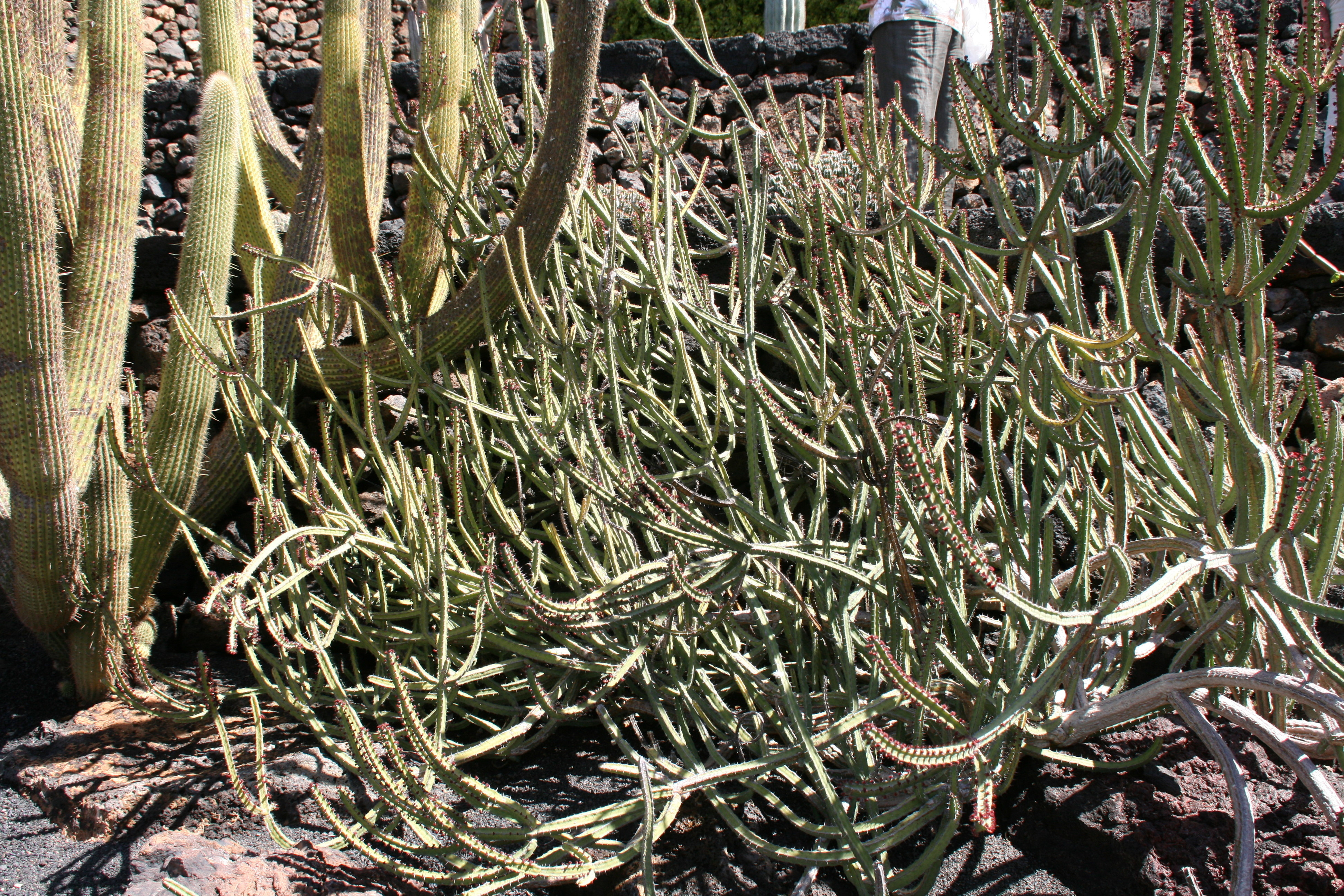 Euphorbia elegantissima grown in the Botanical Garden “Jardin de Cactus” in Guatiza, Teguise, Lanzarote, Canary Islands